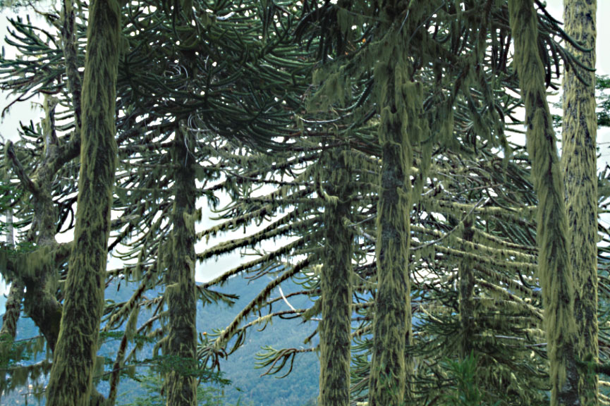 Araucarien-Wald, Parque Nacional Villarrica, Regionen Araucania / Los Lagos, Chile Autor: Roswo, Rosenwirth-Dia own work Original: KB-Diapositiv